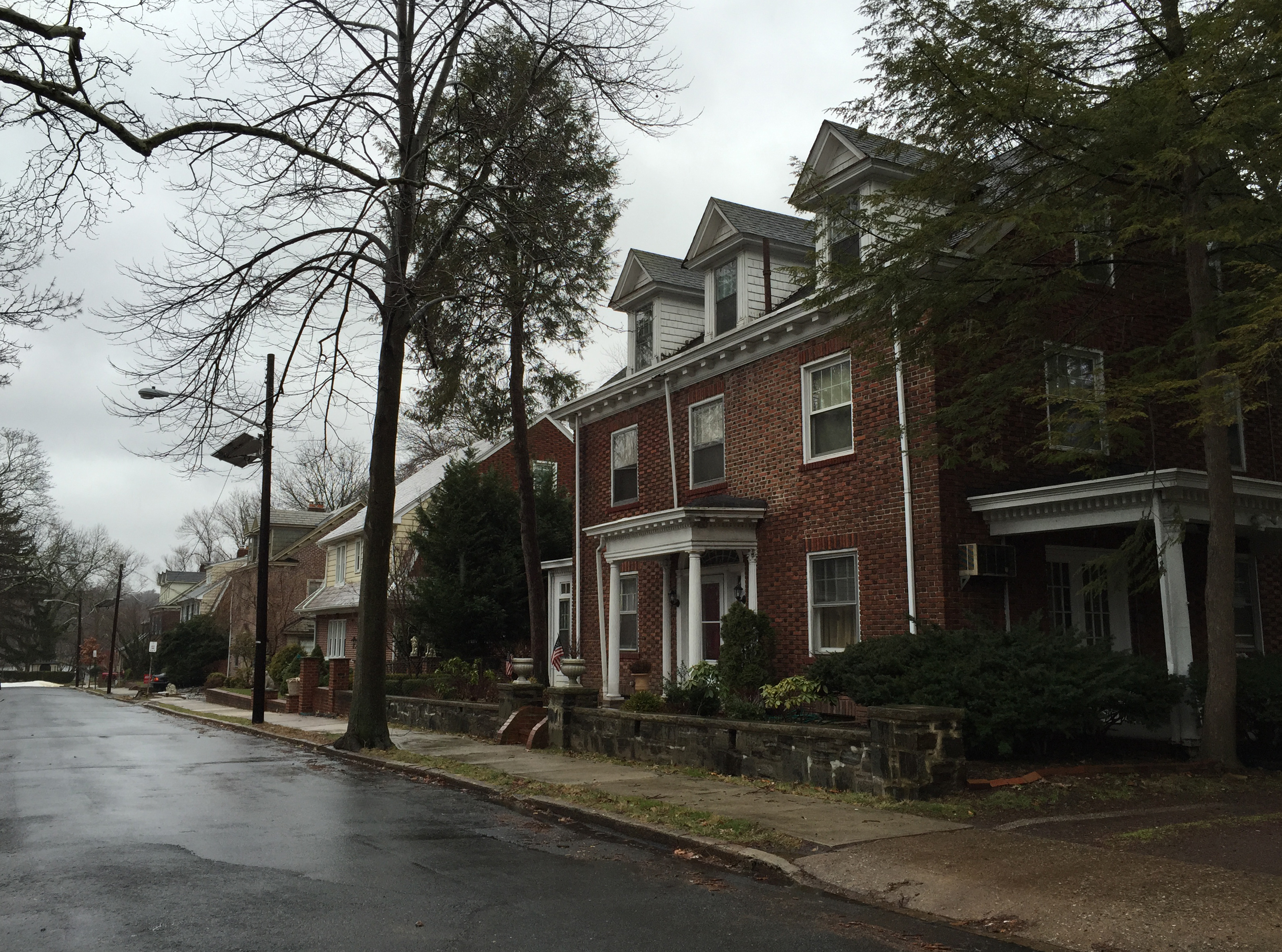 Houses along Richey Place in the Fisher/Richey/Perdicaris section of Trenton, New Jersey